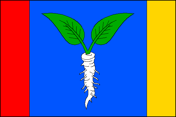 Municipal flag of Hlízov village, Kutná Hora District, Czech Republic.